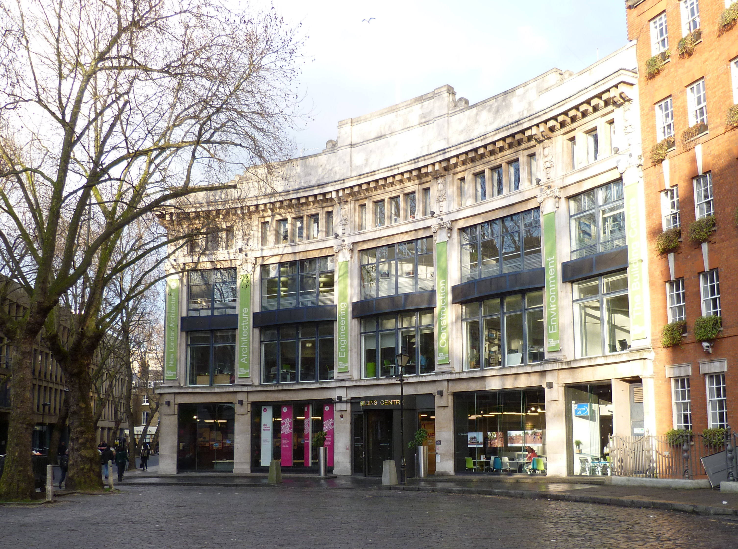 The Building Centre, London.